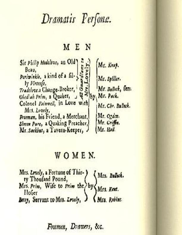 Castlist page of first edition of A Bold Stroke for a Wife, 1718 play by Susanna Centlivre.